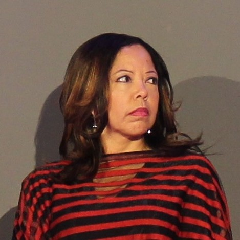 Lucy McBath at a film discussion in 2015.